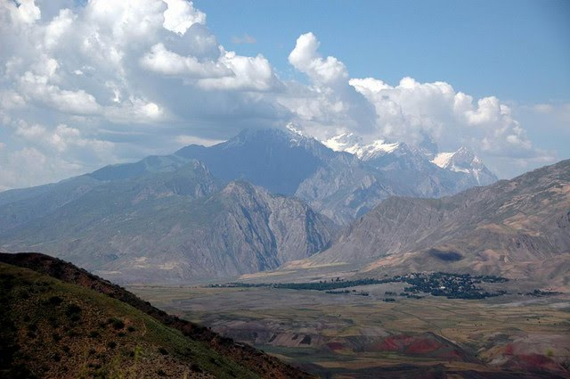 Khwahan district in badakhshan province